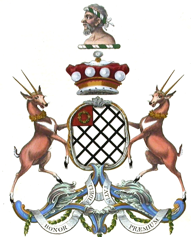 Source: English Peerage, Charles Catton 1790